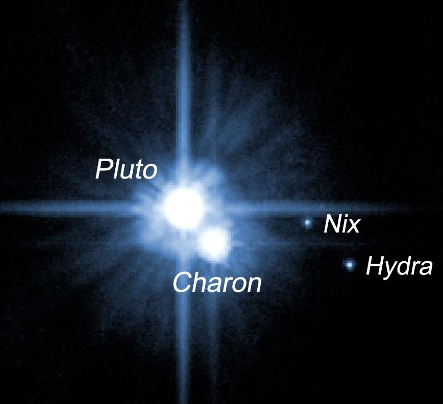 Pluto and its satellites, Charon, Hydra and Nix.